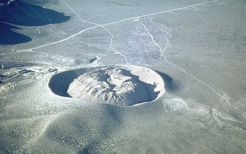 Panum Crater with central lava dome, Mono Craters, California, USA